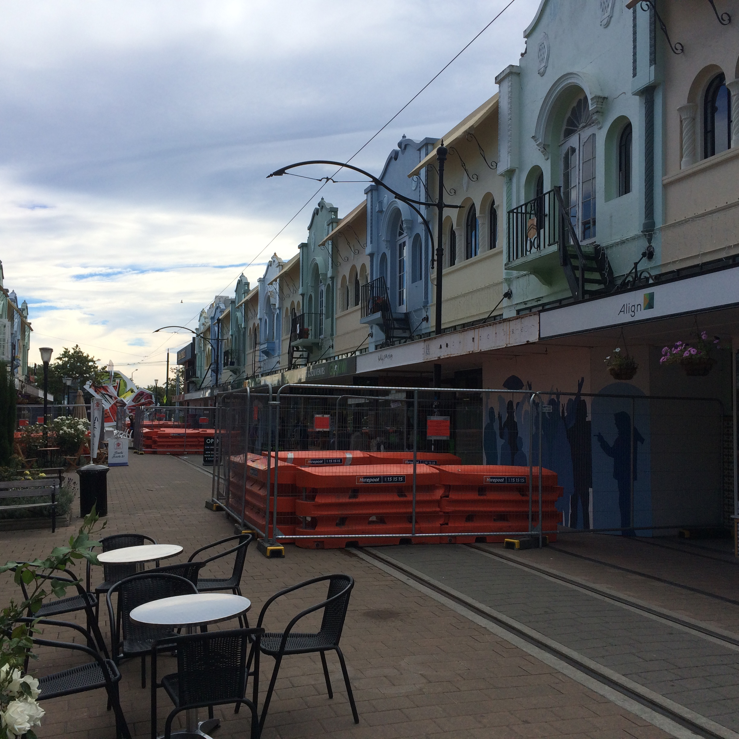 The five properties in New Regent Street owned by Helen Thacker have been cordoned off after the 2016 Christchurch earthquake, which stops the tram from doing its traditional route through the pedestrian mall.